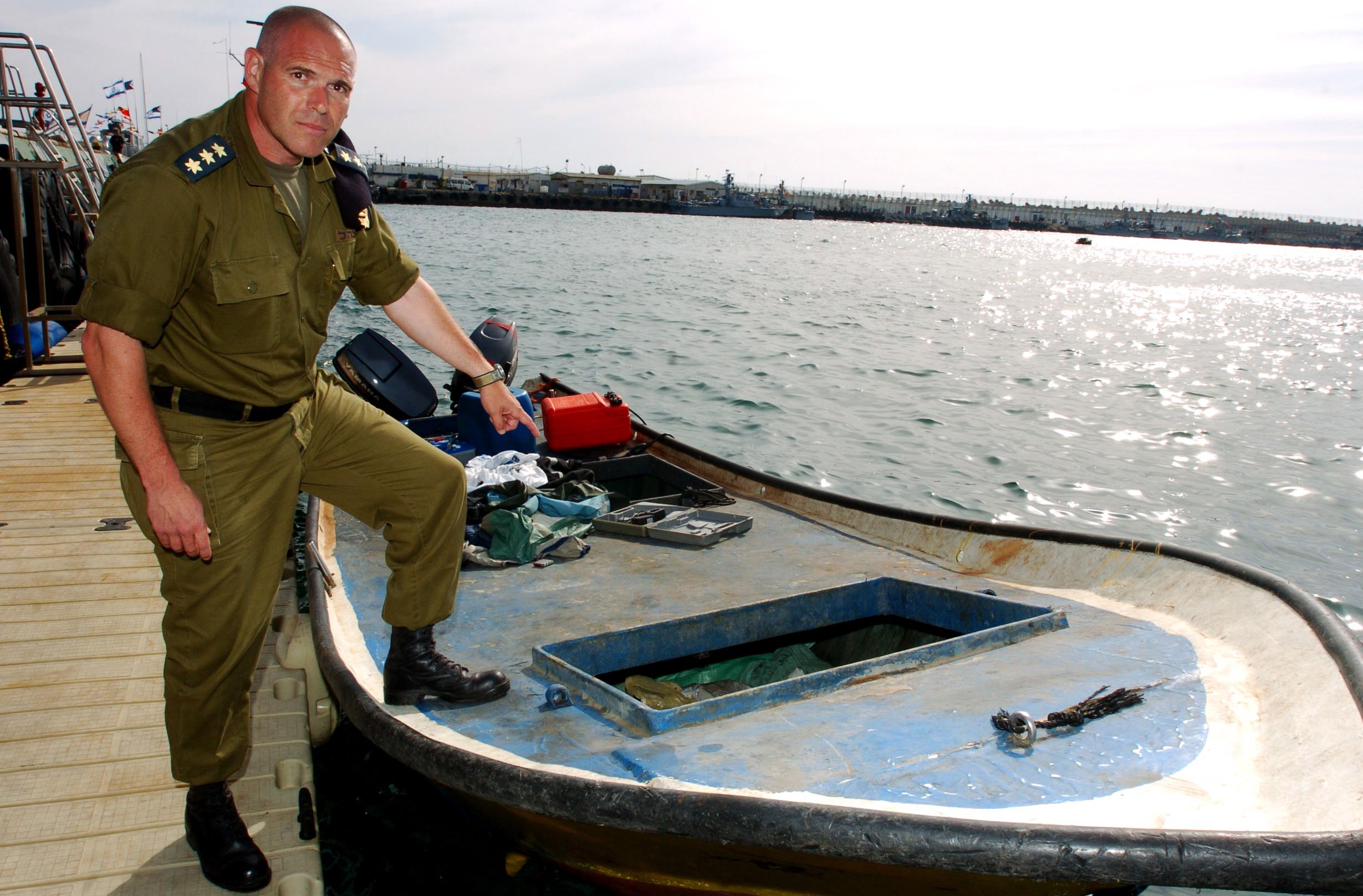 May 14, 2006 Arms smuggling attempt uncovered by Israel Navy Forces and Israel Securities Authority. Pictured: A captured Gaza-bound boat filled with explosives.